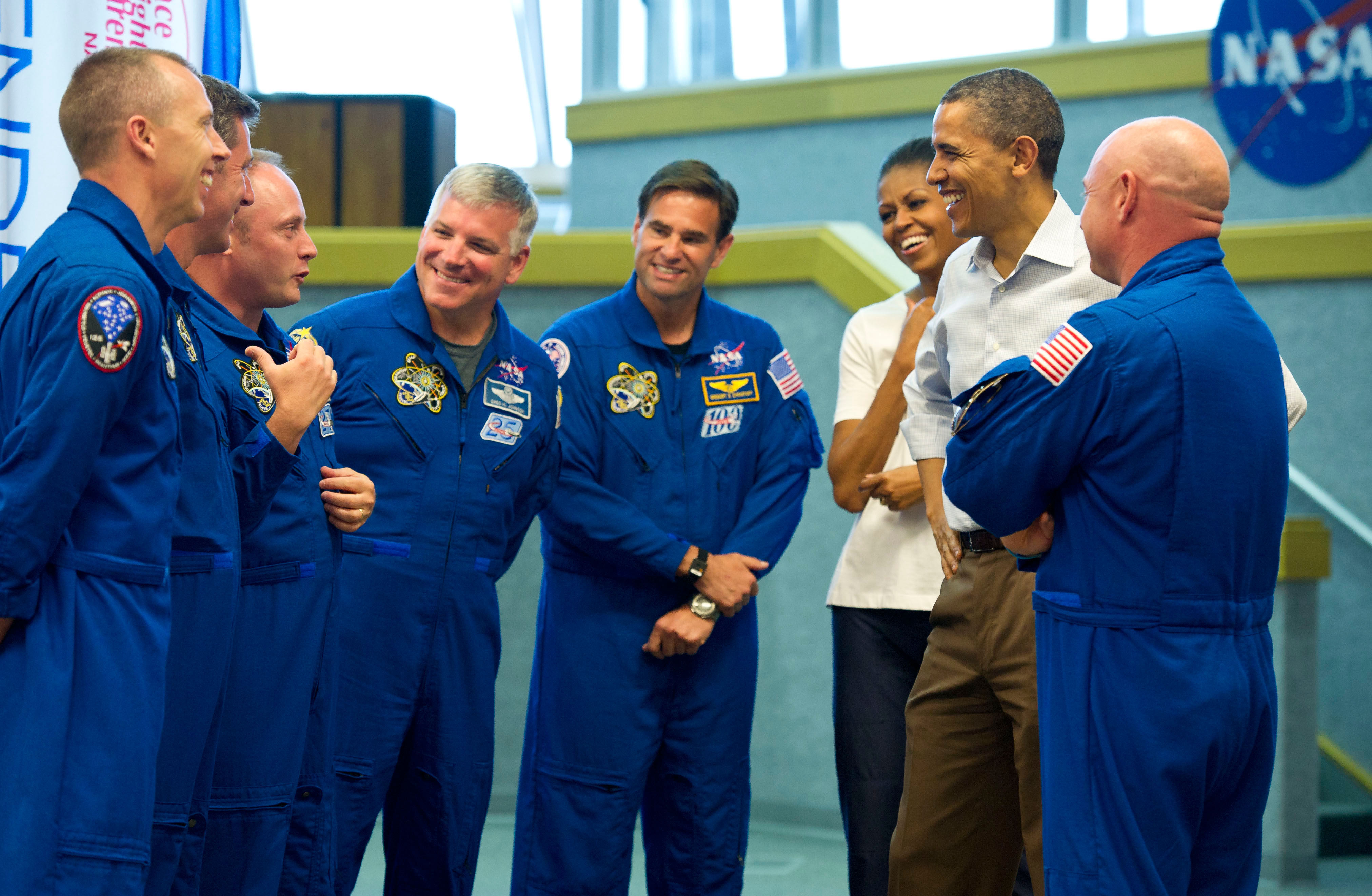 President Barack Obama and First Lady Michelle Obama meet with STS-134 space shuttle Endeavour commander Mark Kelly, right, and shuttle astronauts, from left, Andrew Feustel, European Space Agency's Roberto Vittori, Michael Fincke, Greg H. Johnson and Greg Chamitoff, after their launch was scrubbed, April 29, 2011, at NASA's Kennedy Space Center in Cape Canaveral, Fla.